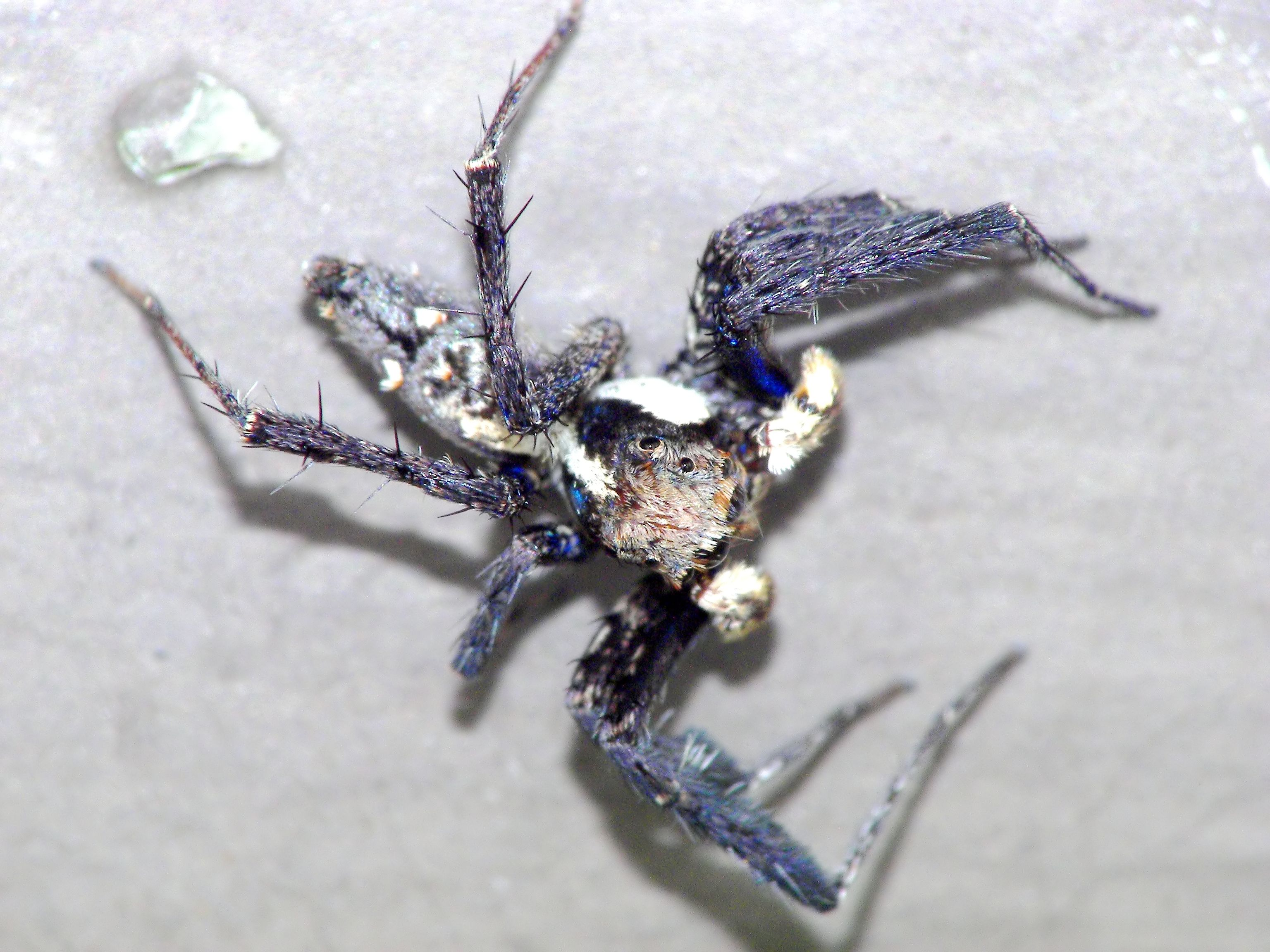 Saw this similar one but with slightly different colors near my home